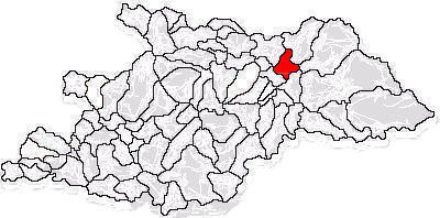 Map of Ruscova commune in Maramureş County Romania